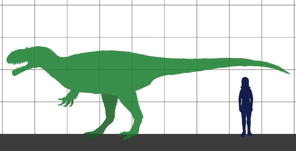 Size of the theropod dinosaur Yutyrannus huali (9 meters long), compared to a human.